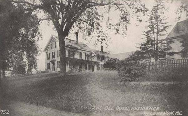 Ironwell -- summer home of Ole Bull (1810-1880), Norwegian violinist and composer, at West Lebanon, Maine. In 1871 he purchased the fruit farm, naming it for its healthful well.